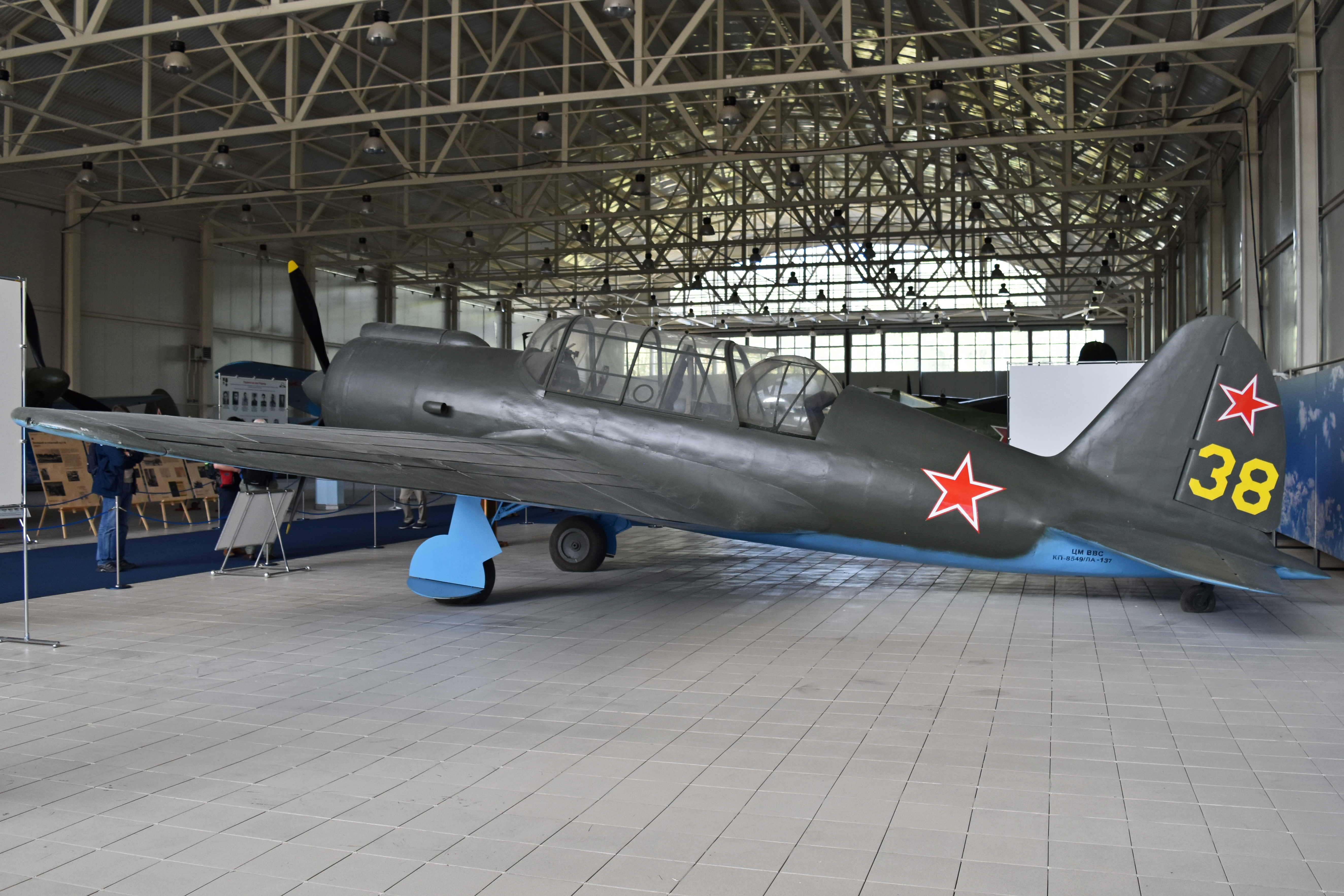 The Su-2 was the first Sukhoi design and was intended for reconnaissance and light bombing. Although introduced in 1939 it was outdated by 1941 and suffered heavy losses to the Germans. No genuine examples survive. This full-size mock-up is on display in the new Hangar 6B which has been built behind the entrance building. At the time of our visit the hangar had not been officially opened to the public, but we were given special permission to access it from Hangar 6A. Central Air Force museum, Monino, Moscow Oblast, Russia. 27th August 2017